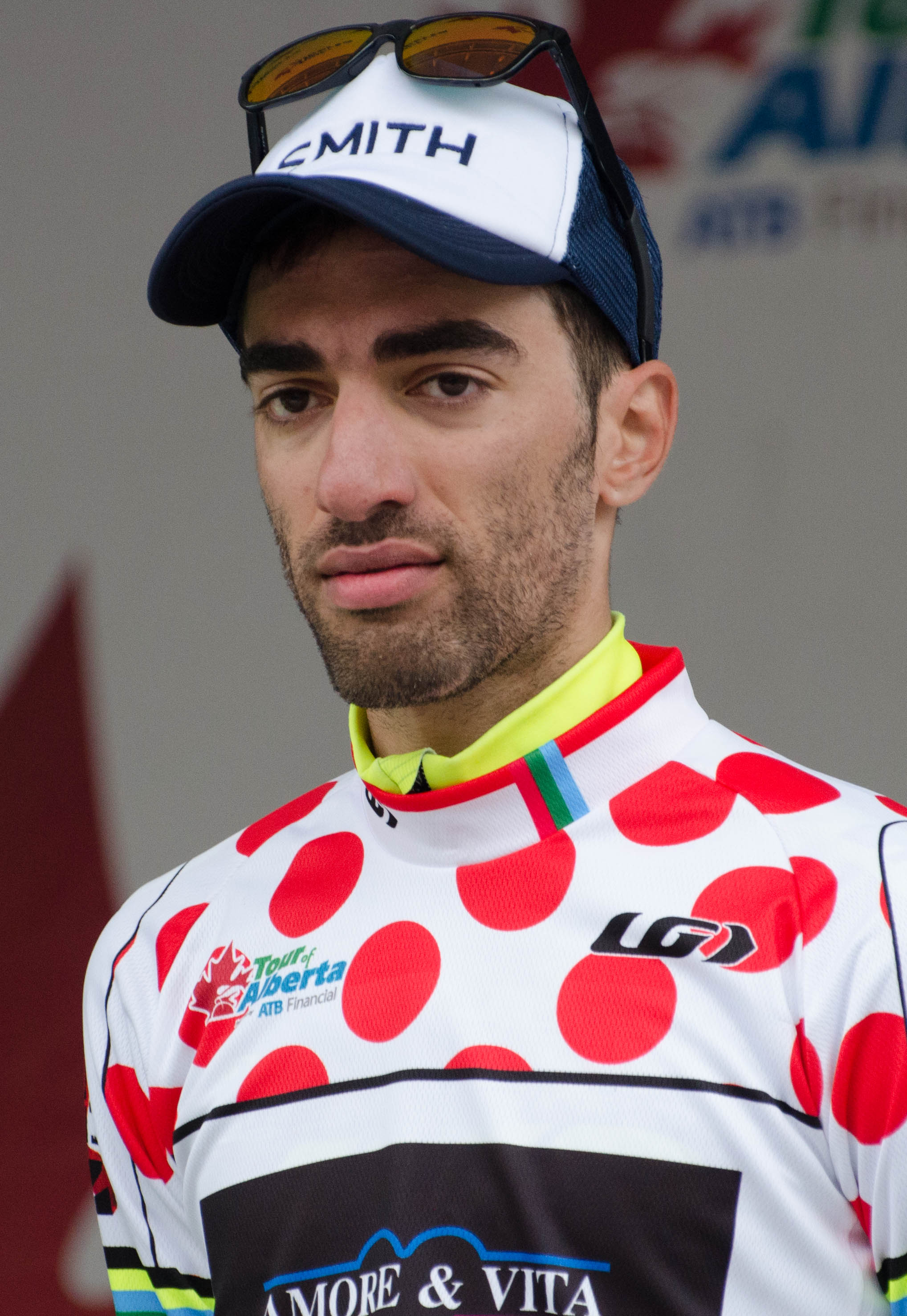 Danilo Celano at the 2016 Tour of Alberta Please credit Connor Mah if used elsewhere.